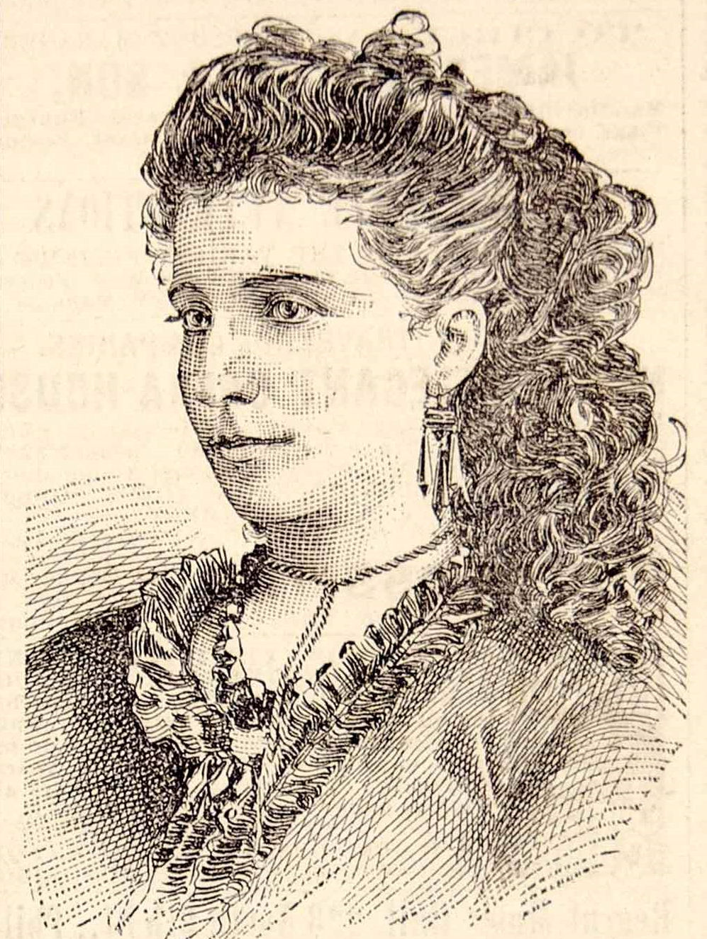 Portrait of Alice Oates (1849-1887) scanned from an obituary of 1887